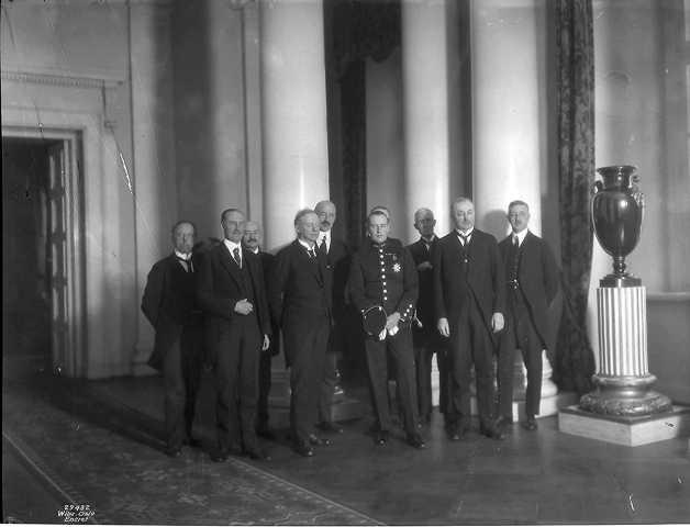 The ministers of Lykke's Cabinet, which governed Norway between 1926 and 1928, with Crown Prince Olav at the Royal Palace.